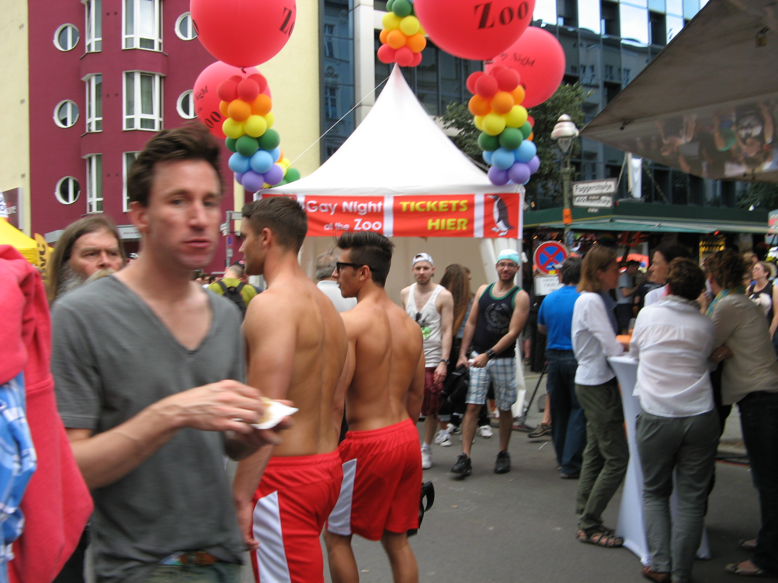 Lesbisch-schwules Stadtfest Berlin 2013, Fuggerstrasse